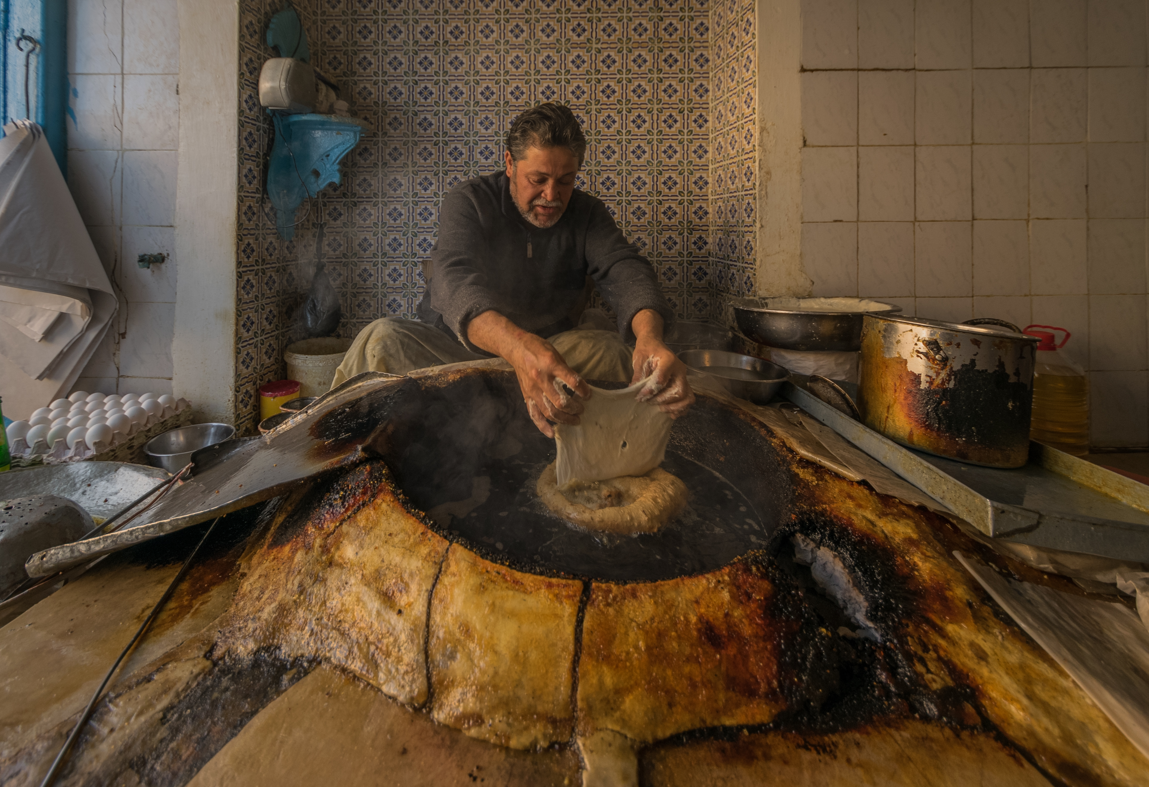 Typical way of cooking begnet in Kairouan. Hi is sitting in front at the same level with the stove and he moves a beignet with a beignet. This is an image of "African people at work" from Tunisia